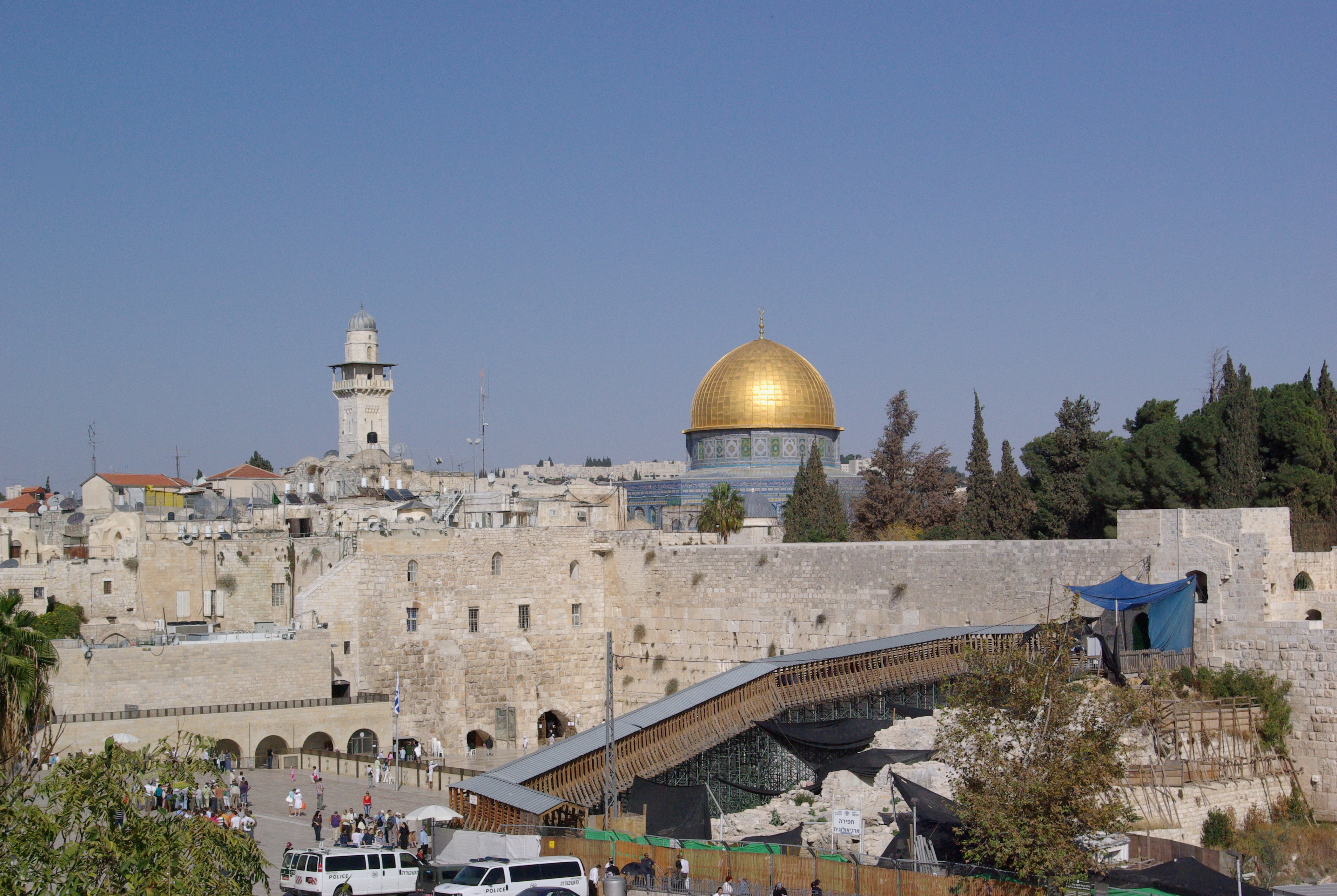 Jerusalem, Dome of the Rock and the Western Wall